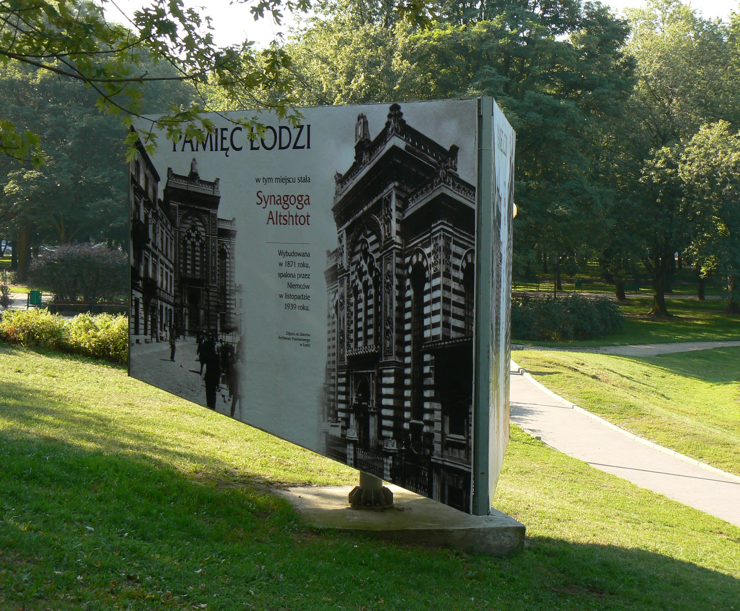 Board commemorating the Altshtot synagogue, located in Staromiejski Park, Łódź.